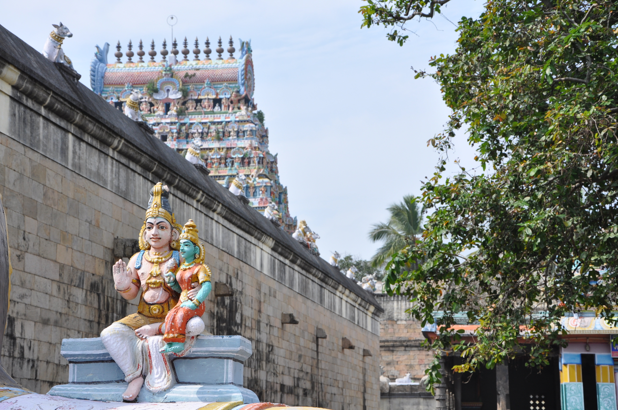 Pic taken in Tiruvidaimarudur Temple near Kumbakonam.